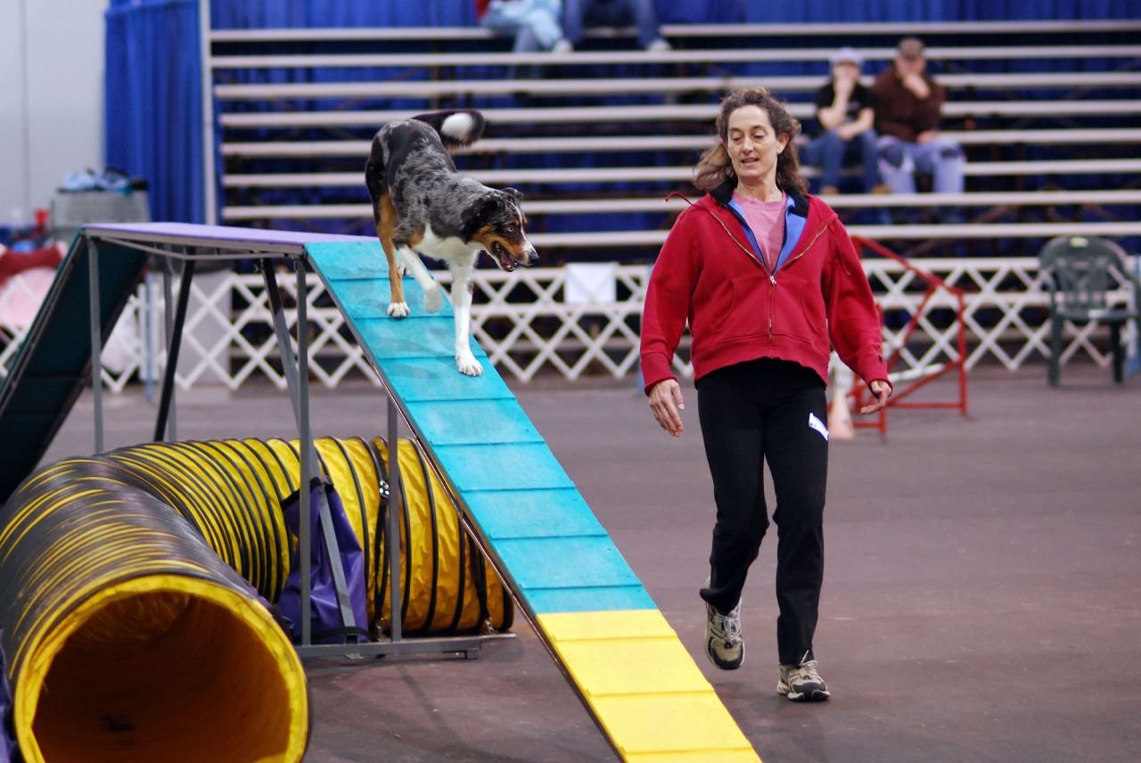 A smooth-coated merle Border Collie going over a dog walk during an agility competition at the Rose City Classic AKC Show 2007, Portland, Oregon, USA.